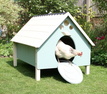 Light Sussex chicken in coop by Oakdene Coops